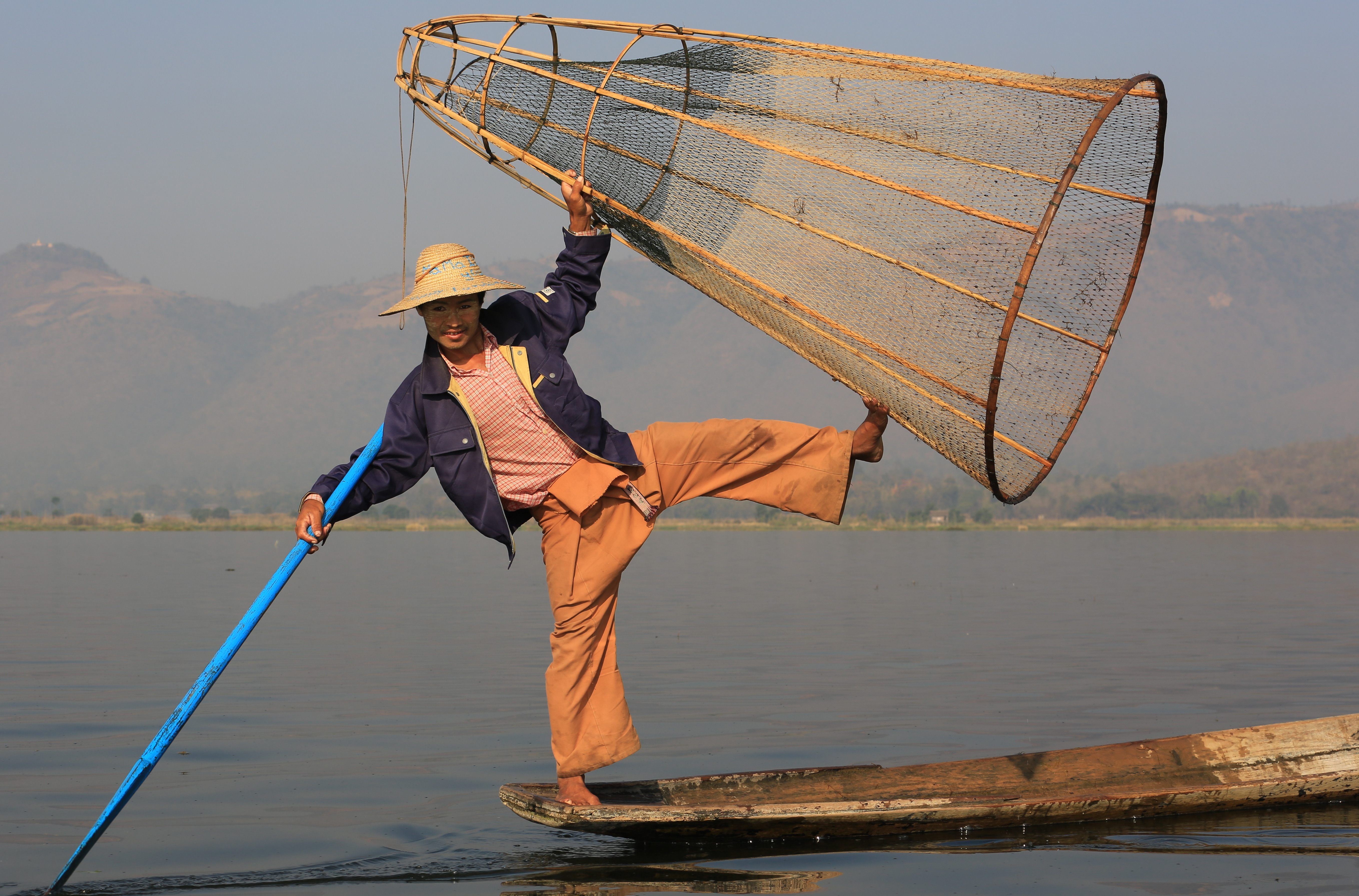 Fisher at Inle Lake.